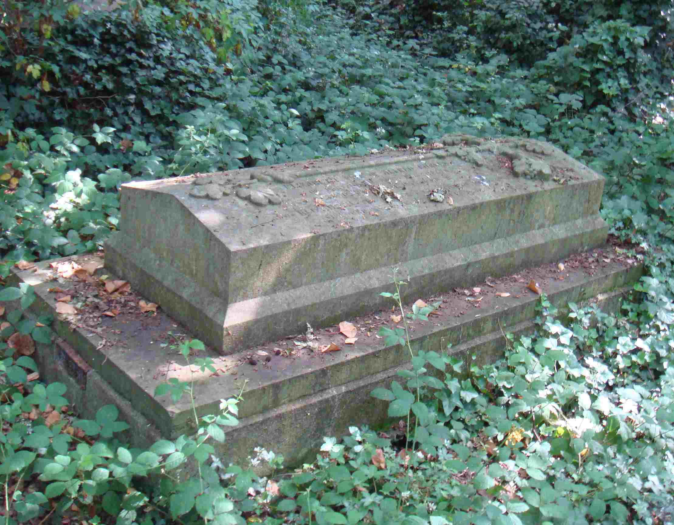 William Burges' tomb near Doulton Path, West Norwood Cemetery